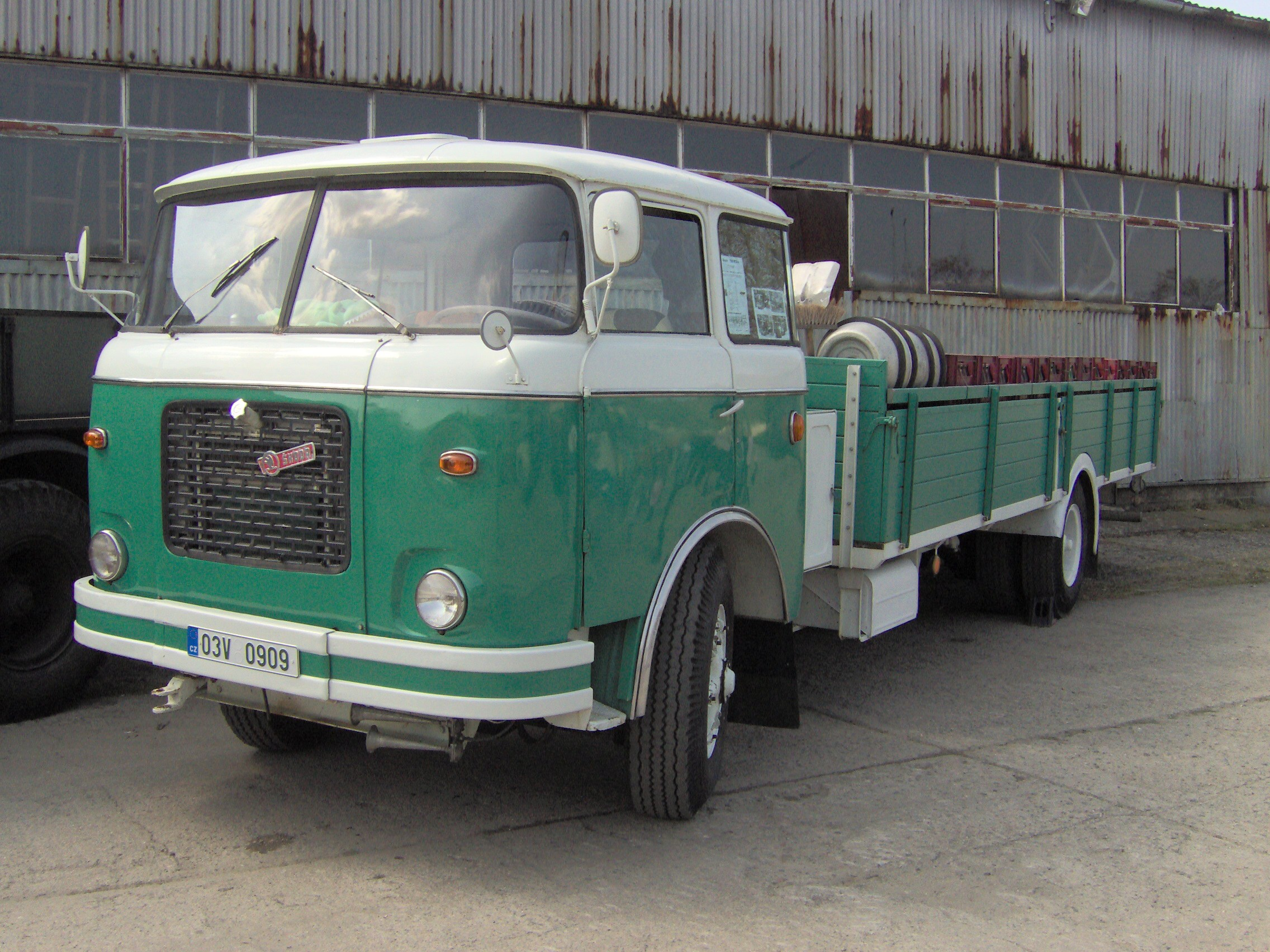 Škoda 706 RT in Brno, Czech Republic